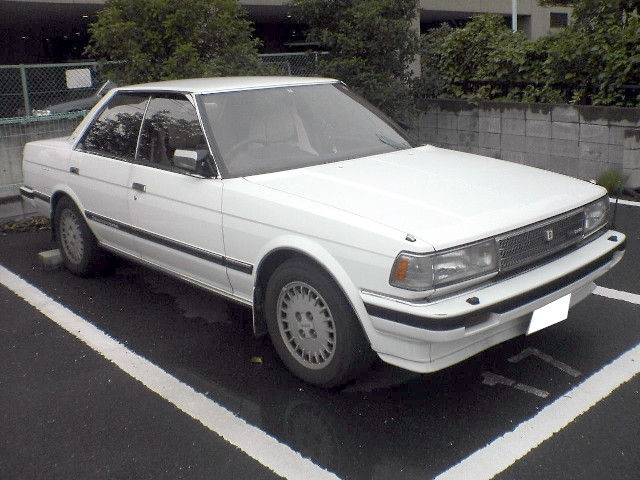 Toyota Chaser GT Twin Turbo series GX71